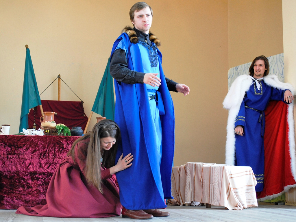 The play written by Ramón Menéndez Pidal Dinis Lavrador (1950)